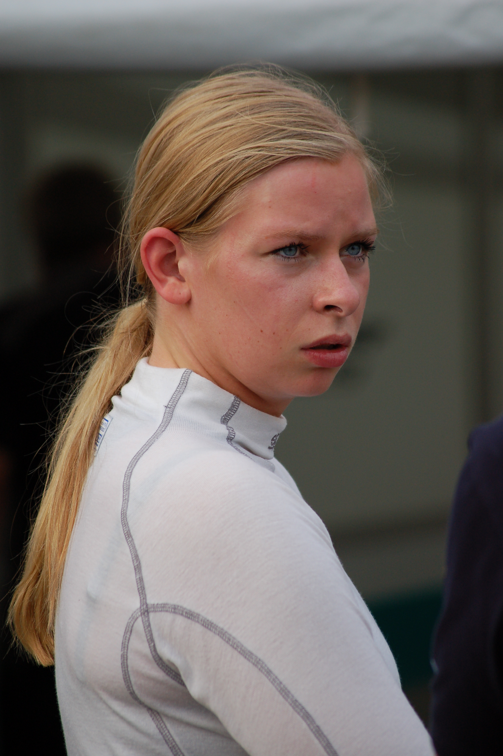 Christina Nielsen at German Porsche Carrera Cup in Zandvoort 2012